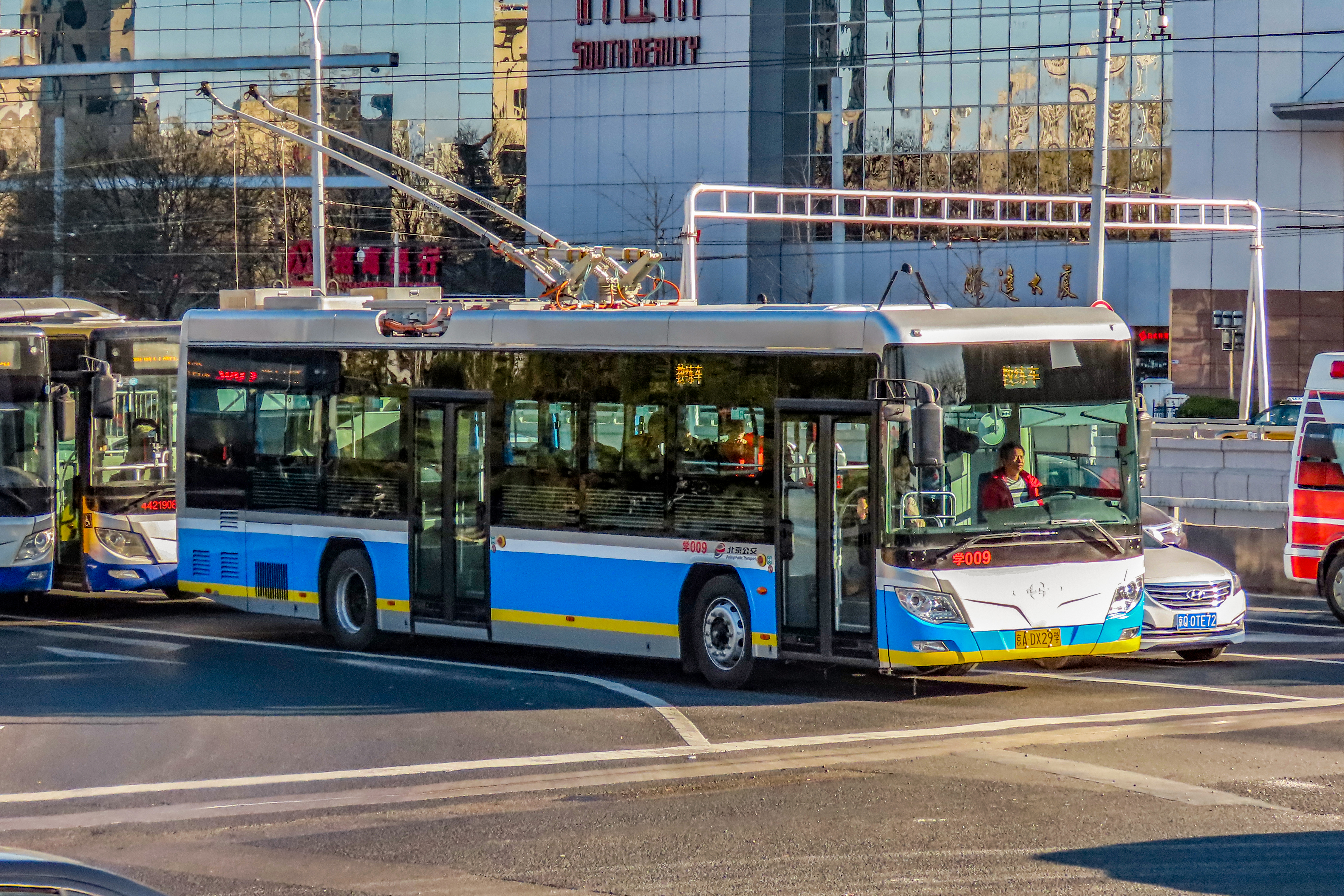 The new training trolleybus, BJD-WG120FN1, is now in operation.